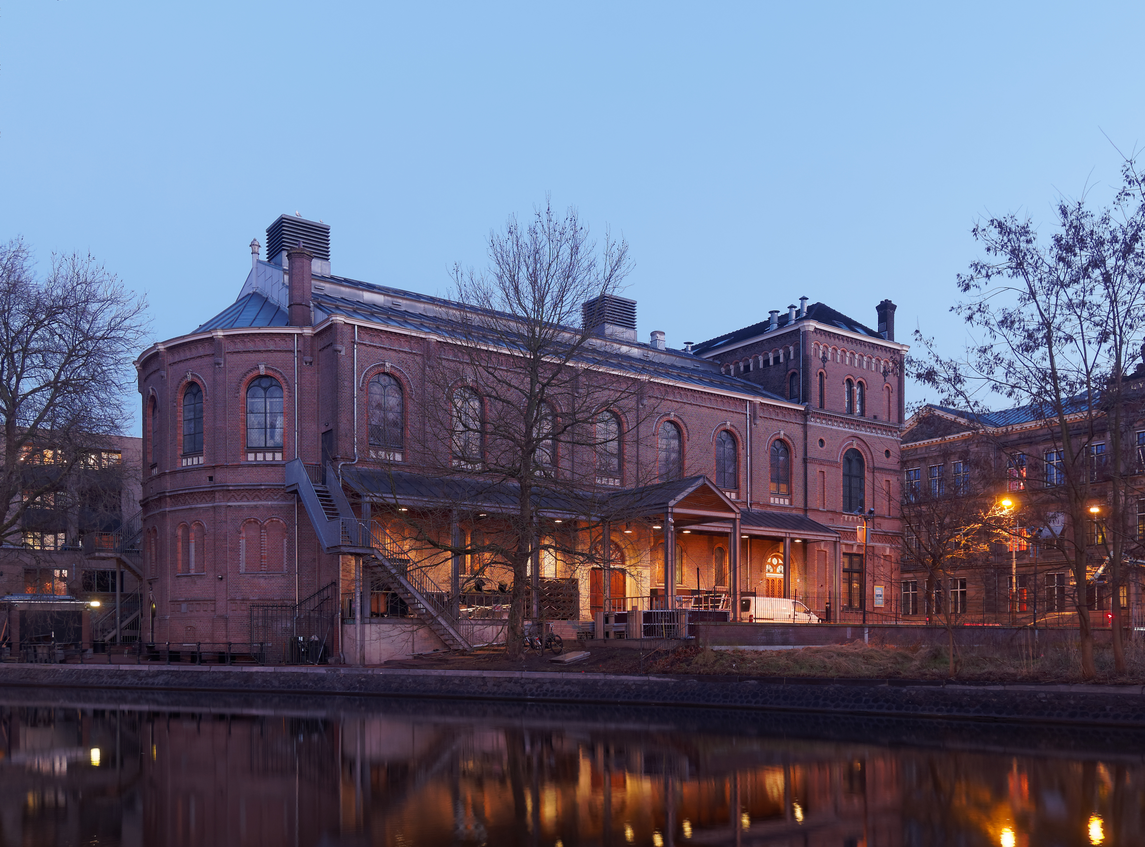 Paradiso, Amsterdam, early in the morning.